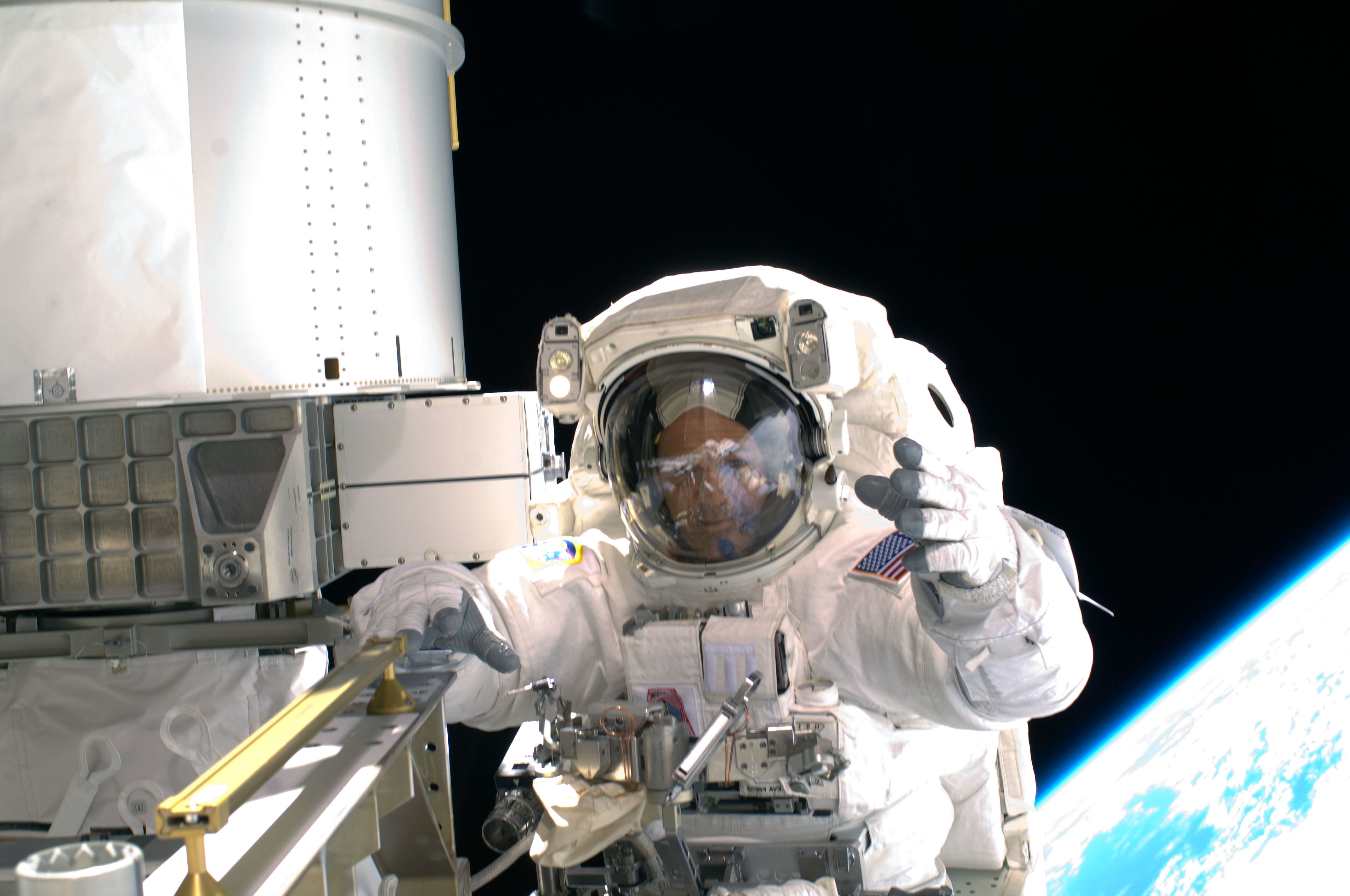 Astronaut Richard Arnold, STS-119 mission specialist, participates in the mission's first scheduled session of extravehicular activity (EVA) as construction and maintenance continue on the International Space Station. During the six-hour, seven-minute spacewalk, Arnold and astronaut Steve Swanson (out of frame), mission specialist, connected bolts to permanently attach the S6 truss segment to S5. The spacewalkers plugged in power and data connectors to the truss, prepared a radiator to cool it, opened boxes containing the new solar arrays and deployed the Beta Gimbal Assemblies containing masts that support the solar arrays. The blackness of space and Earth's horizon provide the backdrop for the scene.